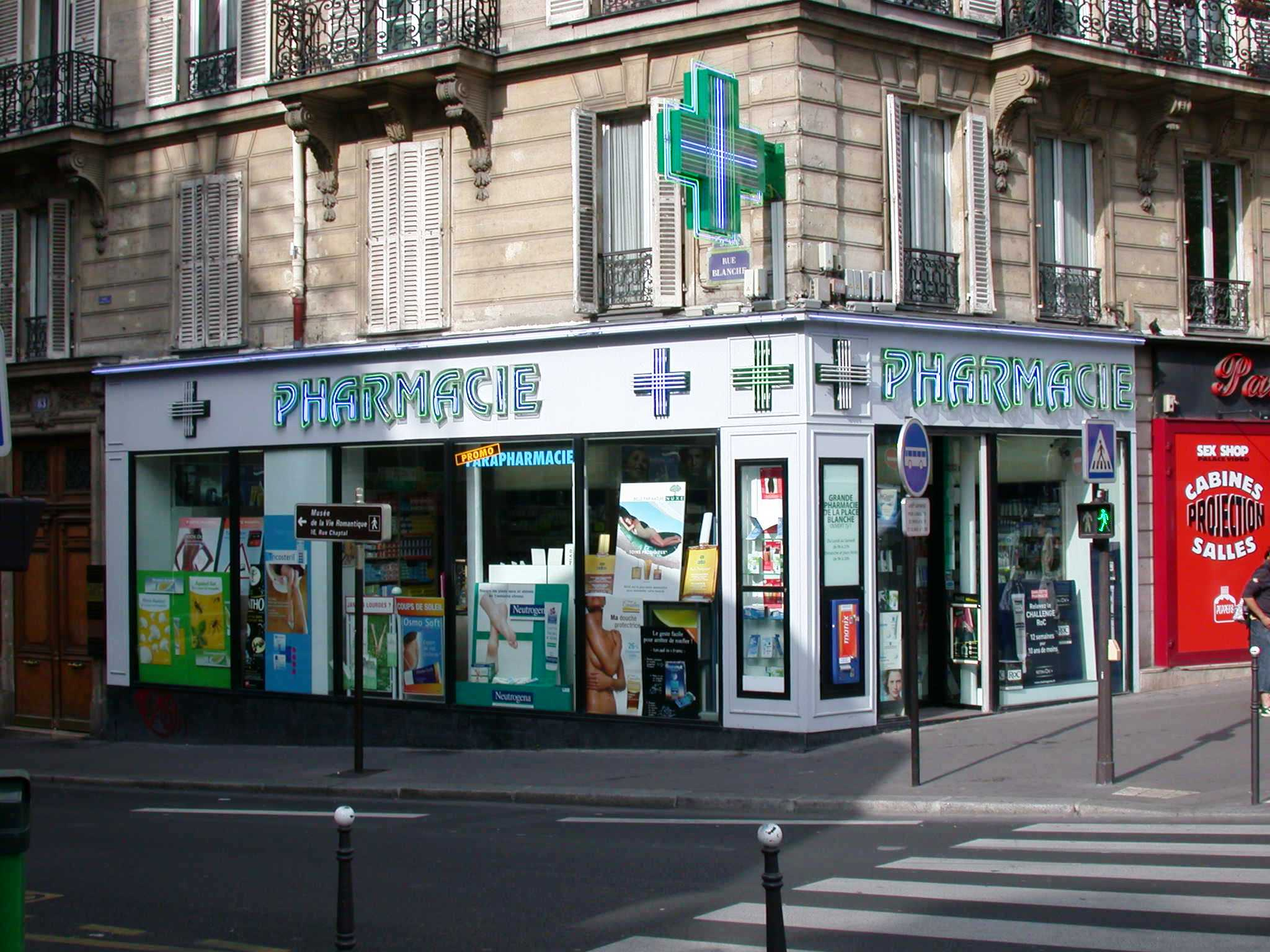 "Grande Pharmacie de la Place Blanche", Place Blanche no 5, IXe arrondissement, Paris, France. Photo by (WT-shared) Riggwelter, August 2006. Was in category Paris (France) on wikivoyage